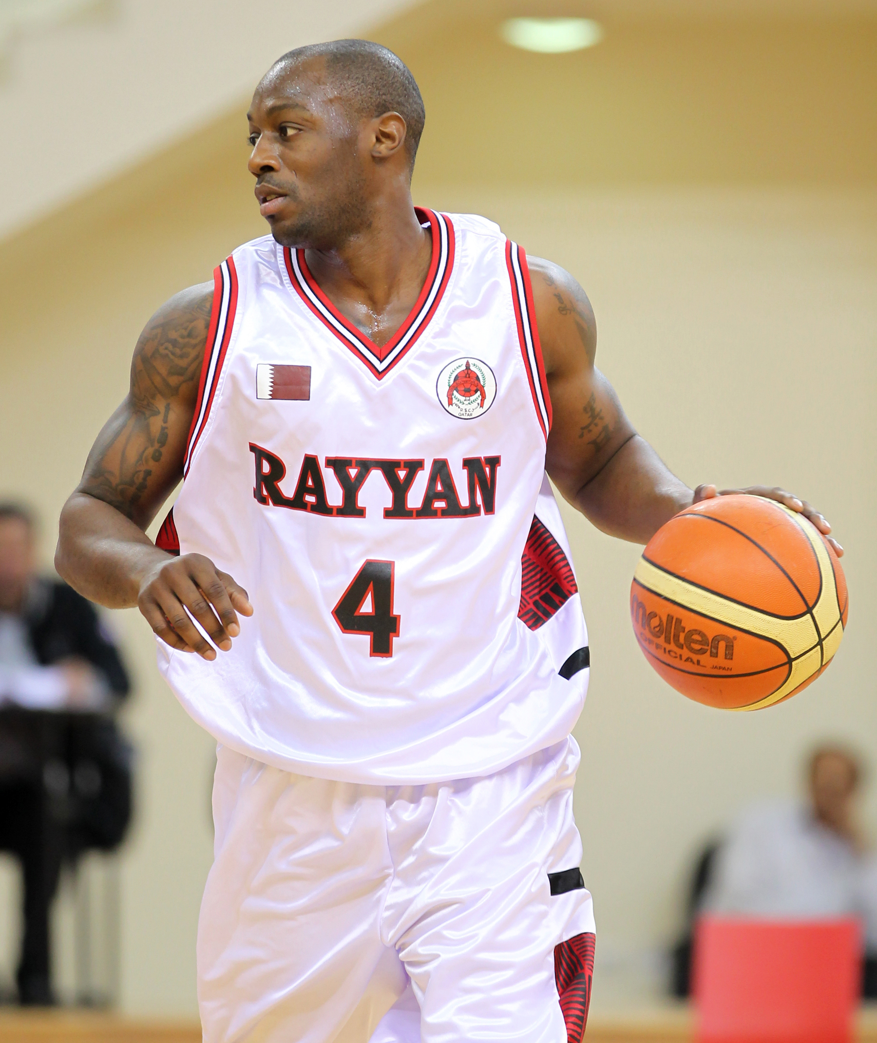 Al Rayyan's American professional Leslie Chauncey in action against Al Sadd in the Qatar League basketball match at the Al Gharafa Indoor Hall. Picture by Mohan